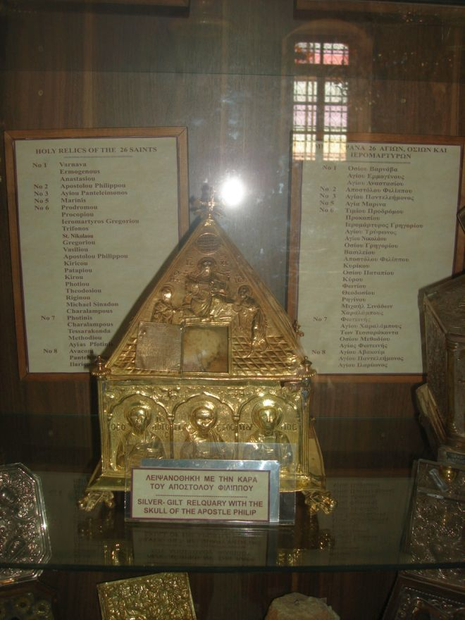 Skull (relics) of the apostle St. Philip in village Omodos in Cyprus (in a silver box with gold, inscription in Greek and English), left - at the church